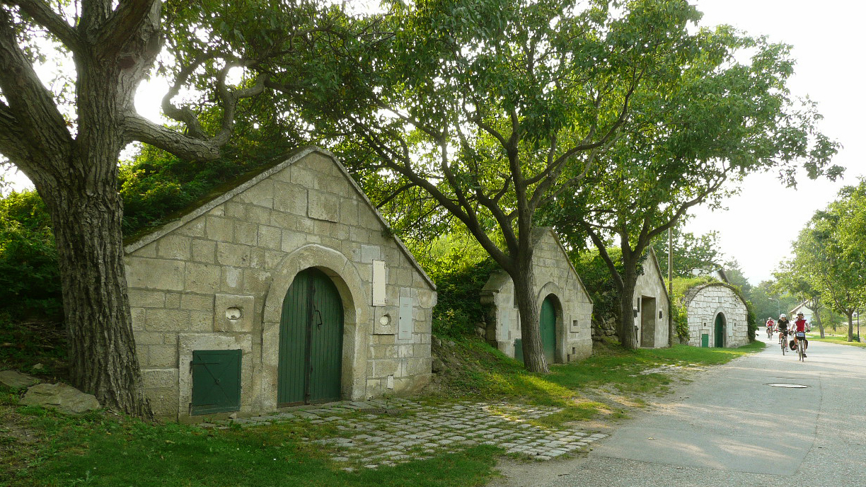 Kellergasse in Purbach